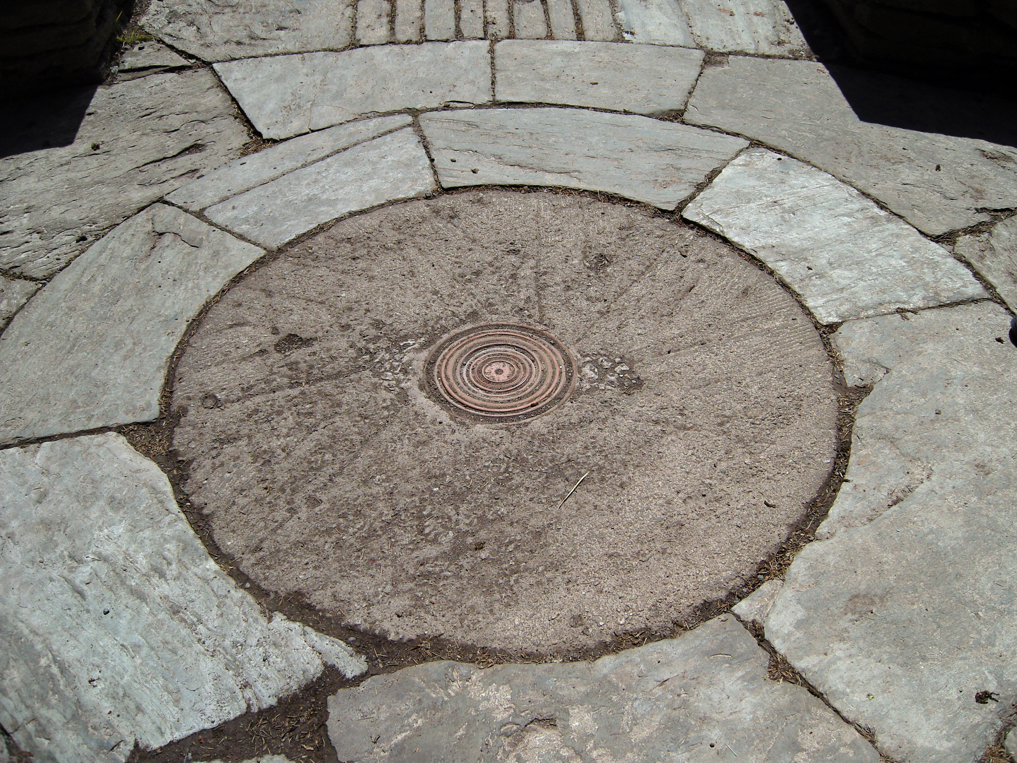 Pavement in Hestercombe Gardens by Edwin Lutyens, in the middle flowerpots in different sizes